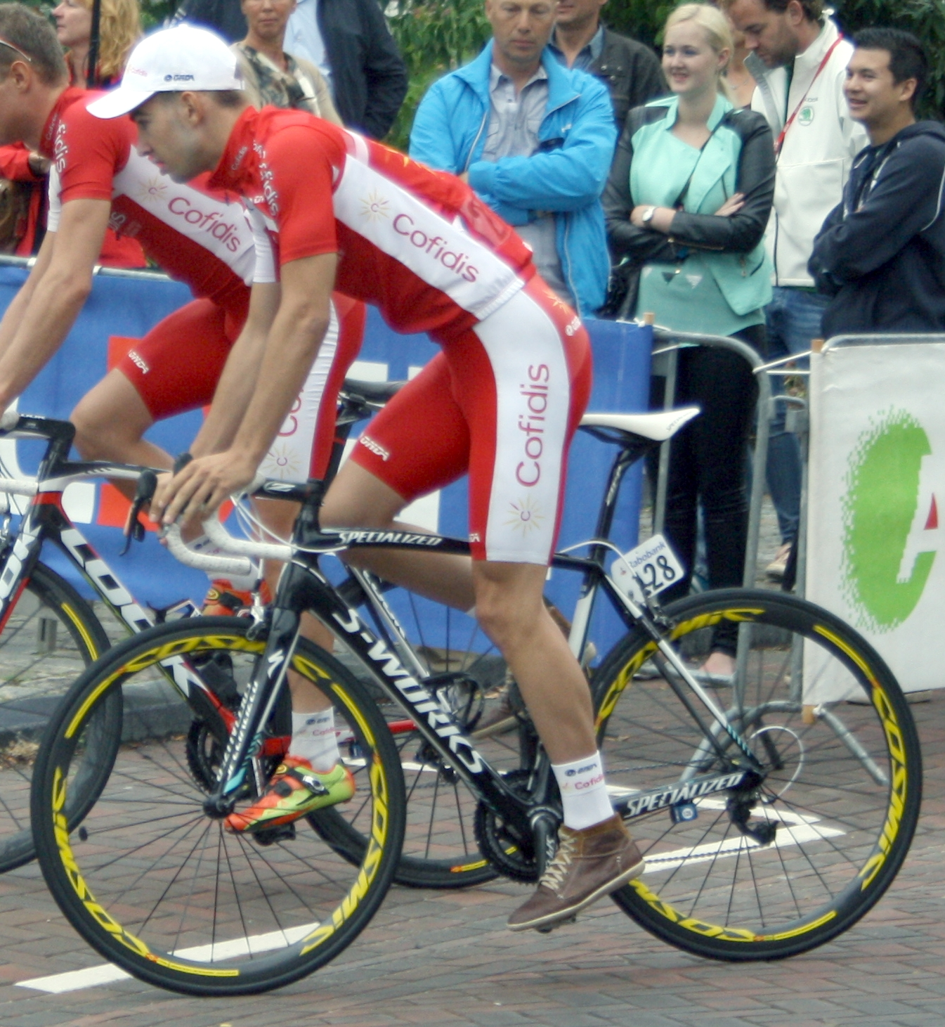 Louis Verhelst before the start of stage 2 of the World Ports Classic 2013